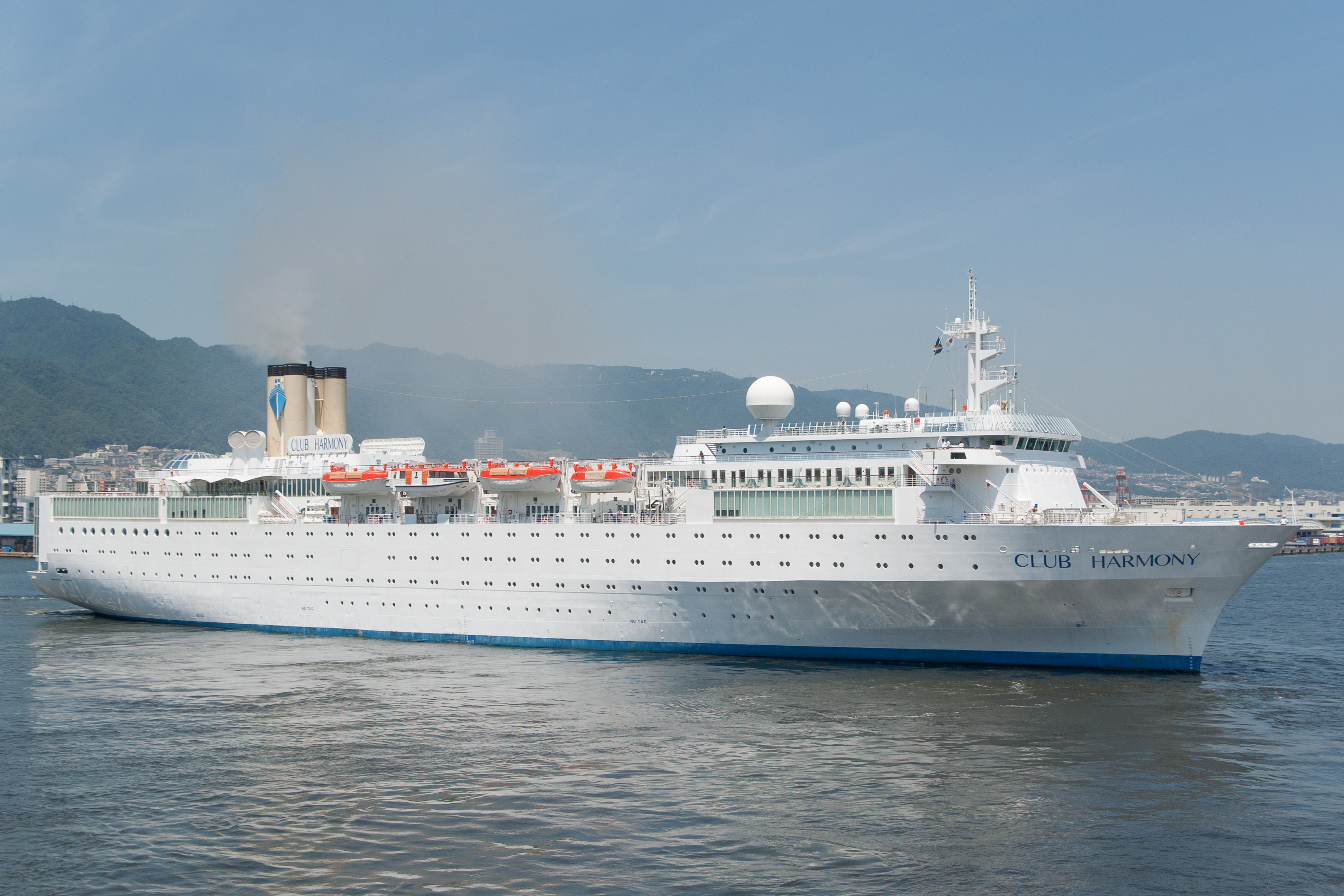 Photograph of cruise ship "Club Harmony" (IMO 6910544) leaving the east side of berth Q1, Shinko Pier No. 4, Port of Kobe, viewed from Kobe Port Terminal, Chuo-ku, Kobe, Hyogo Prefecture, Japan.